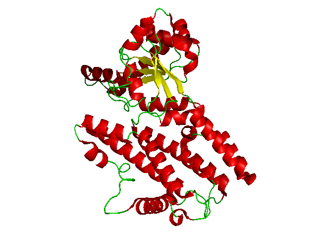 Crystal Structure of IIGP1: A Paradigm for Interferon-Inducible p47 Resistance GTPases